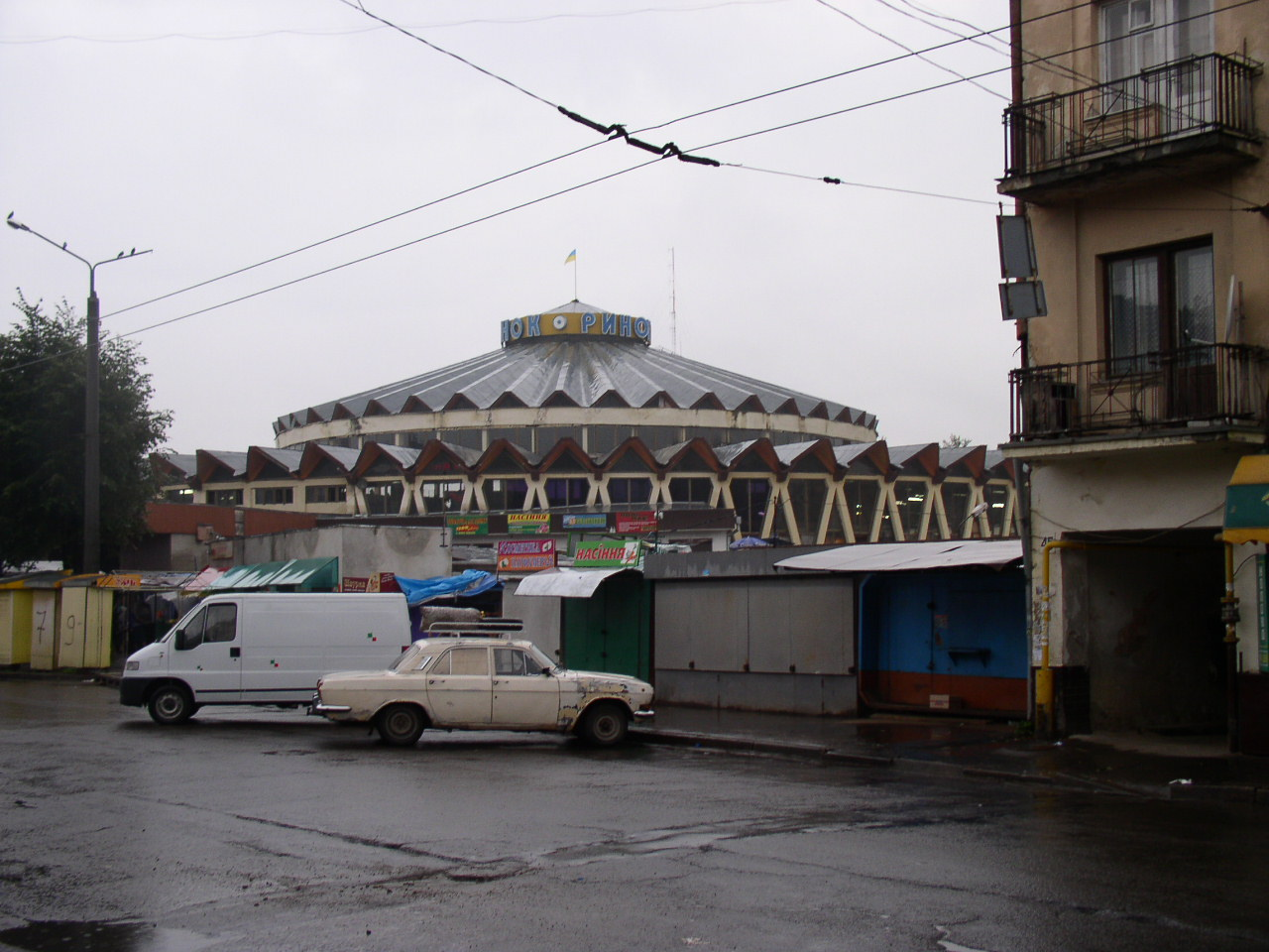 Ivano-Frankivsk, Ukraine.